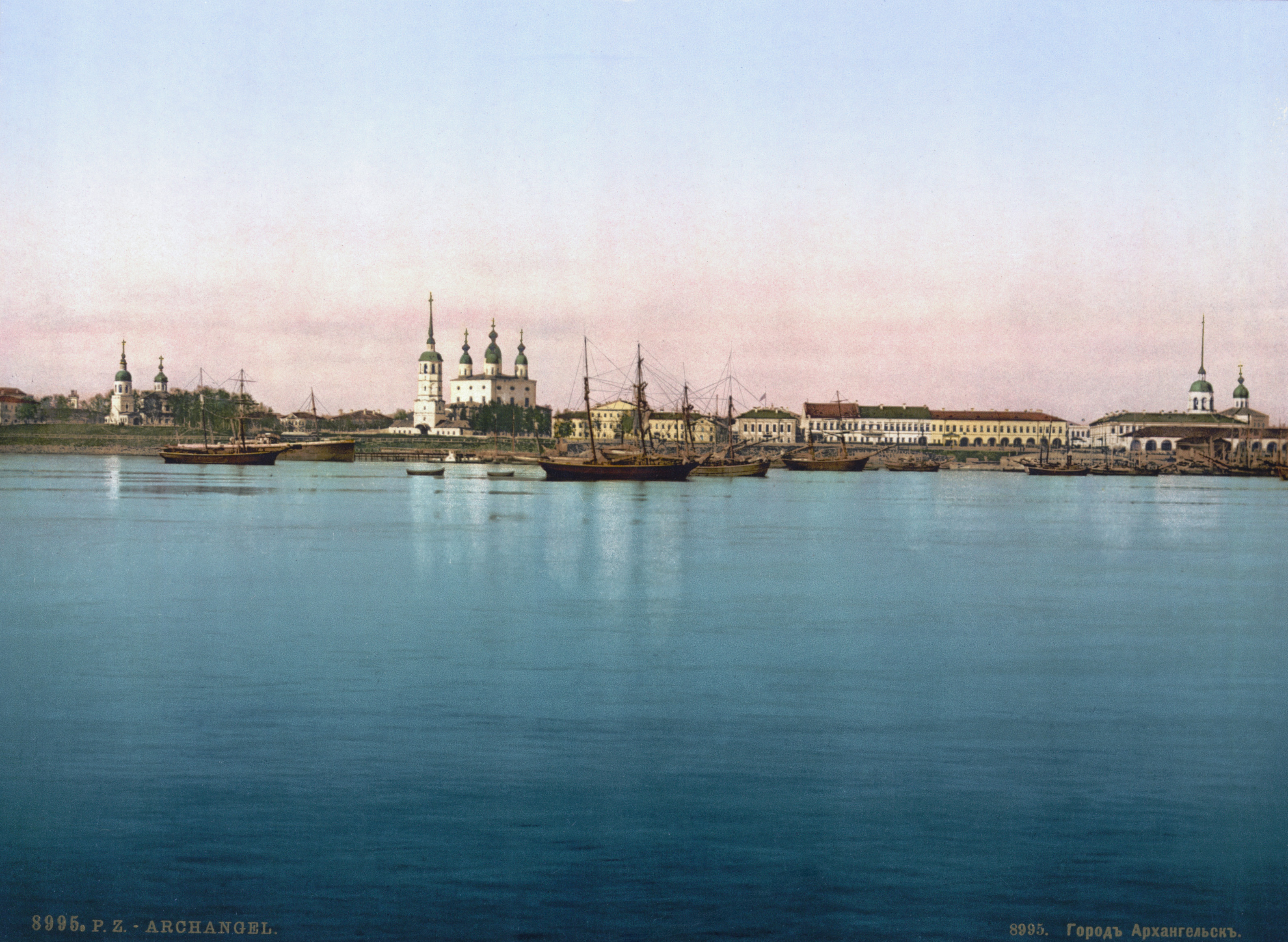 General view, Archangel, Kola Peninsula, Russia Print no. "8995"